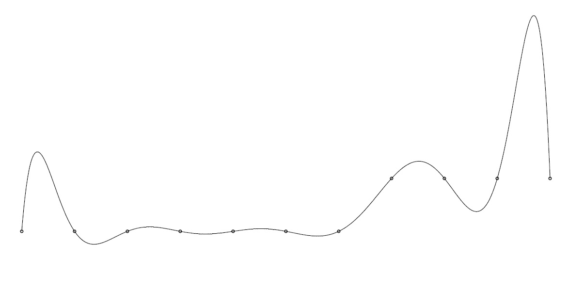 spline